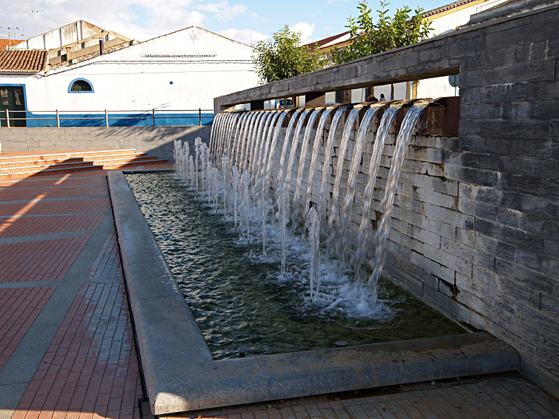 Fountain in Ferreira do Alentejo, near Chapel of Calvário